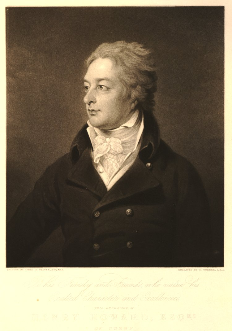 Portrait of Henry Howard (1757–1842), English antiquarian.